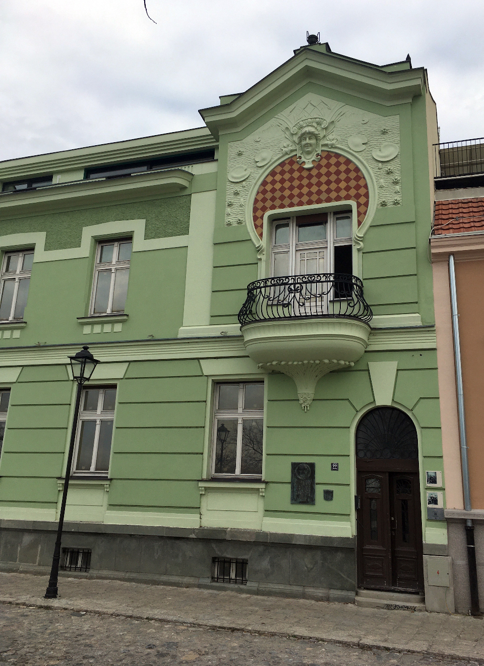 House of Mika Alas in Belgrade, 2020